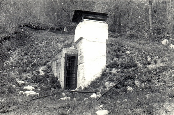 Uranium adit of Lervontov uranium mine